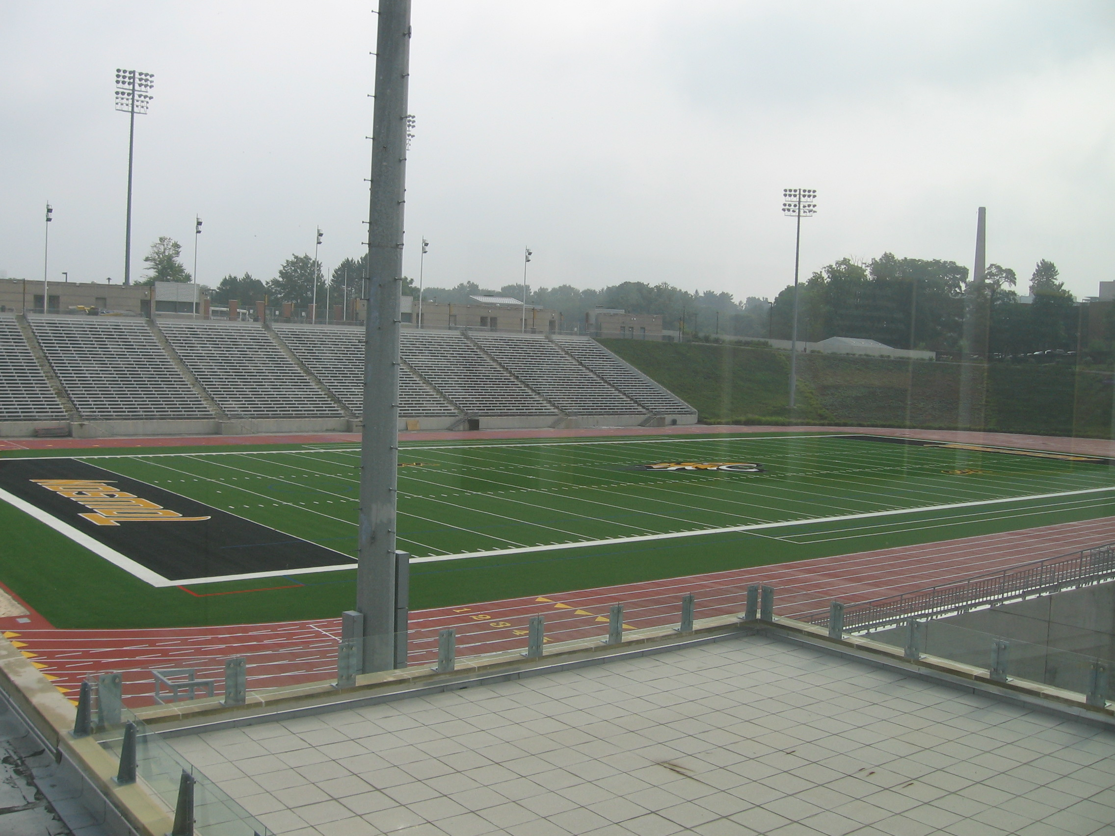 A view of Minnegan field at Johnny Unitas Stadium from the Field House